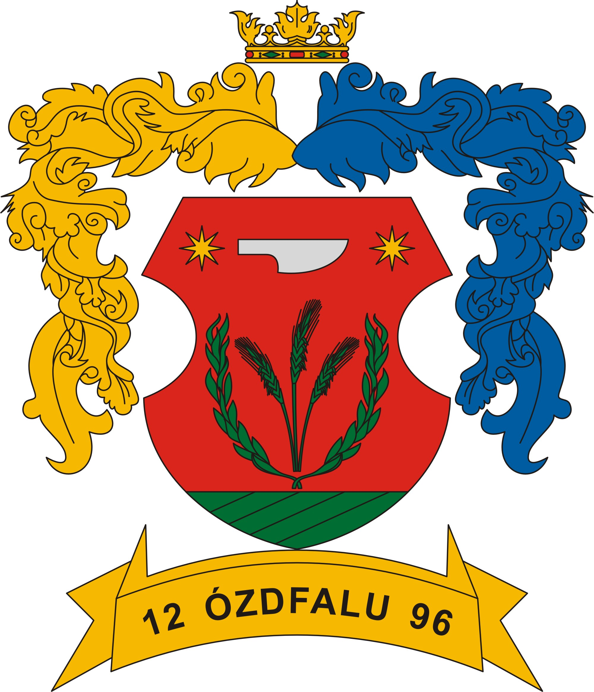 Coat of arms of Ózdfalu, Hungary